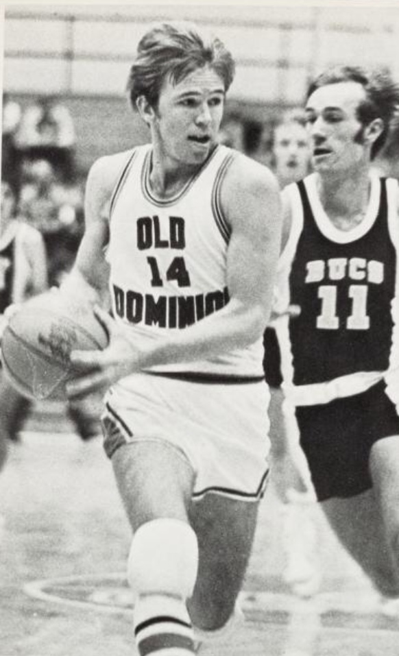 Old Dominion University Monarchs Basketball player Dave Twardzik from the 1972 “Troubadour” yearbook.